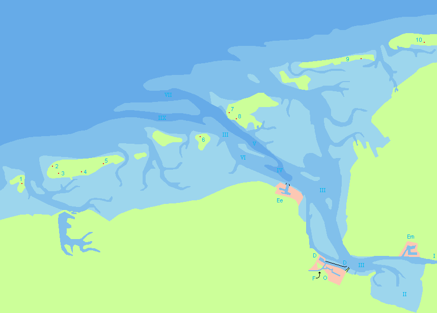 The area of the river Eems at the border of Germany and the Netherlands